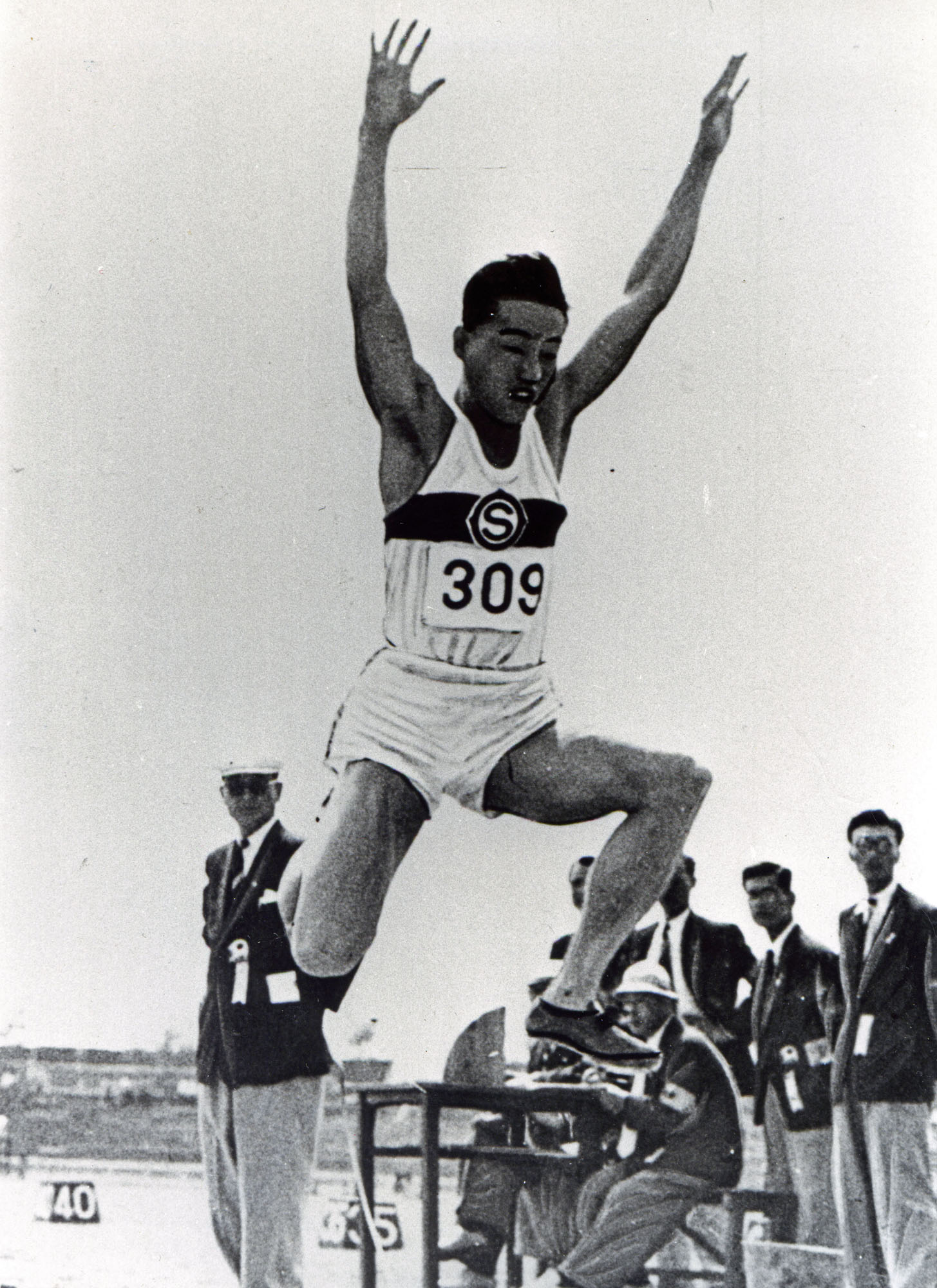 Olympic bronze medalist, Ōshima Kenkichi